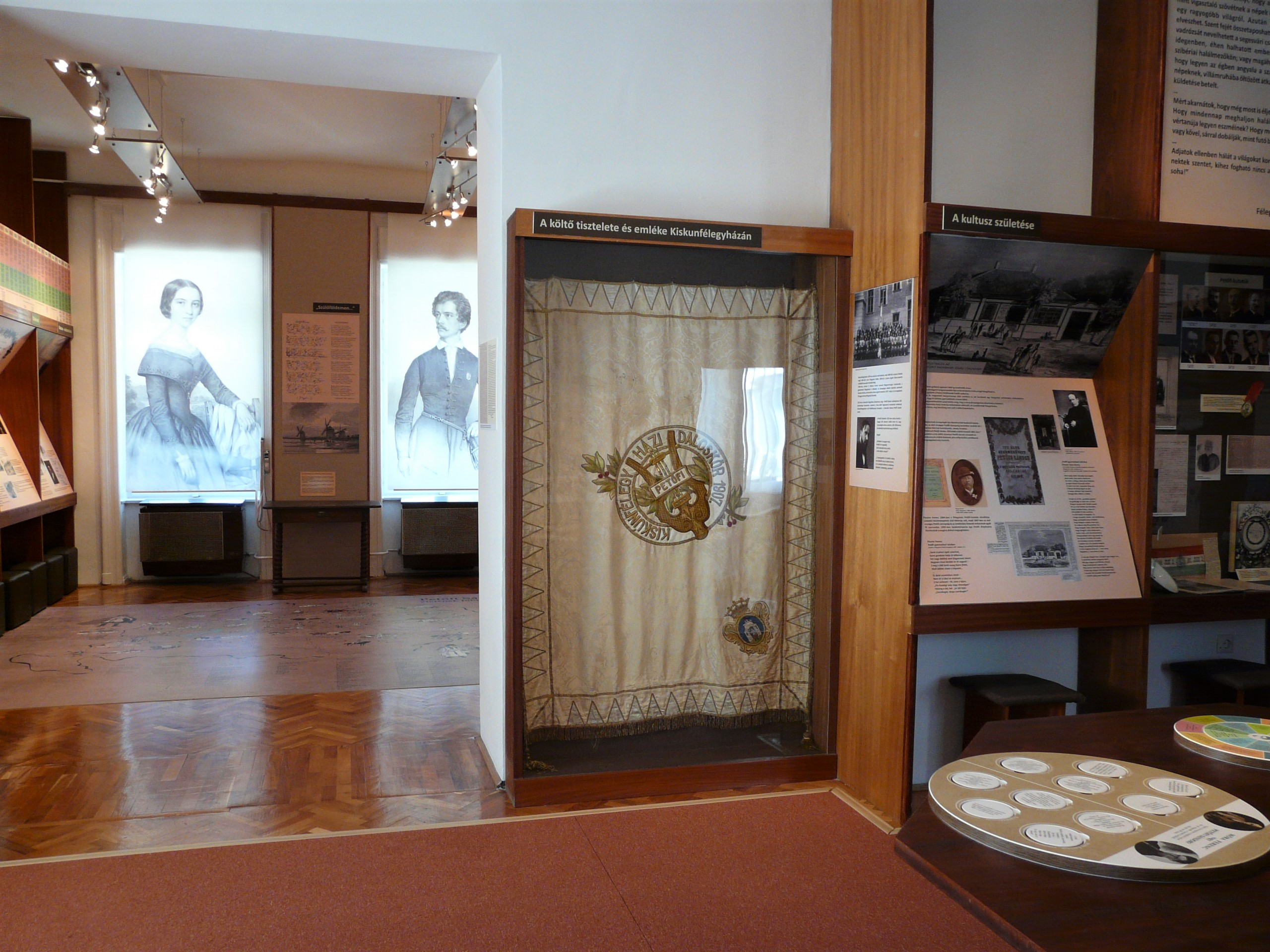 The exhibition of Petőfi Memorial House in Kiskunfélegyháza